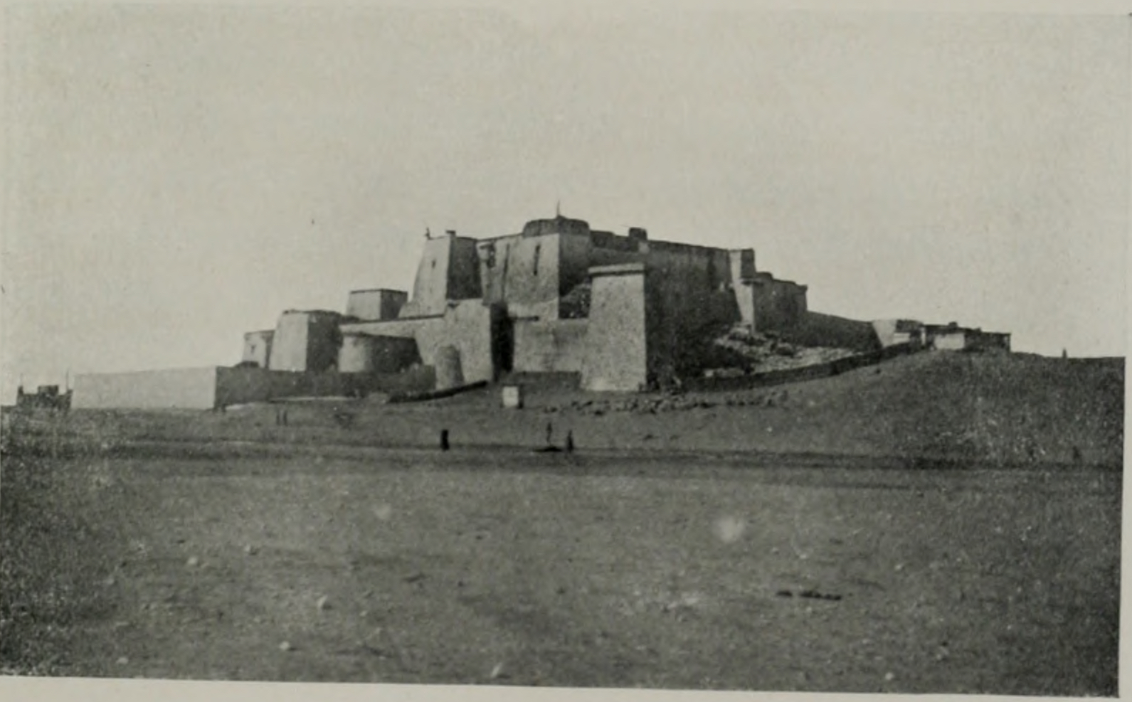 Phari Dzong in 1904, photo taken during Younghusband expedition to Tibet.